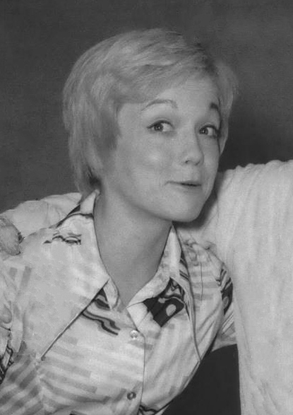 1974 Press Photo Comedian Charley Weaver and Actress Cathy Rigby